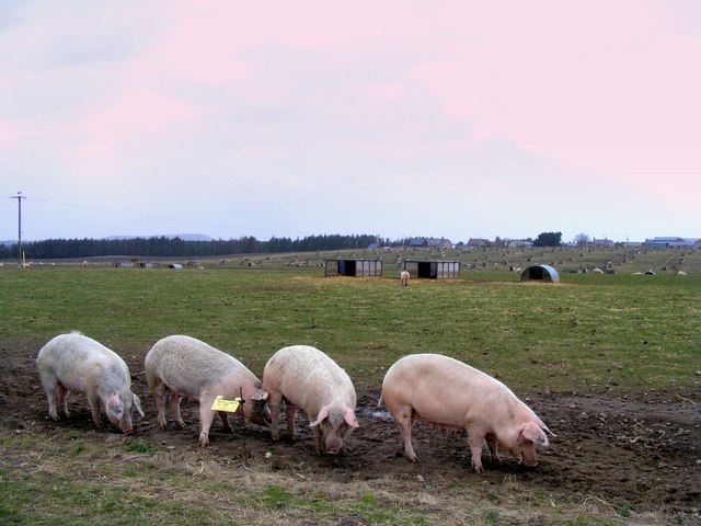 The Pig farm at Lower Auchenreath